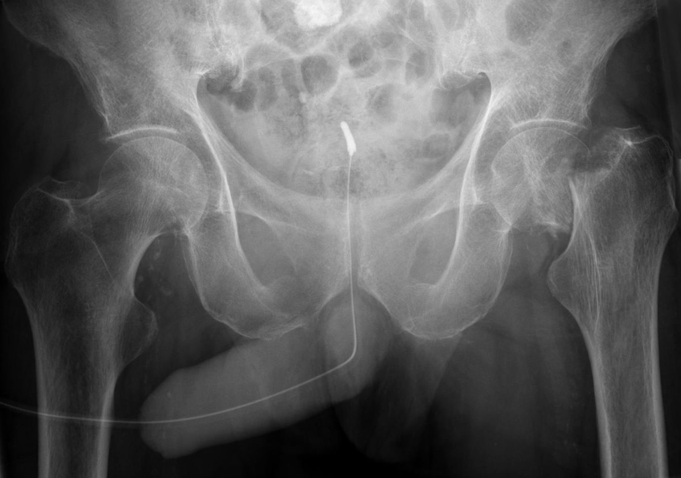 Negative "John Thomas sign" or "Throckmorton sign" displayed by a patient who sustained a femoral neck fracture on the left. This radiography sign occurs when the patient's penis points away from the injured side. Notice that "John Thomas sign" is joke, even though this image is not(!) a fake.